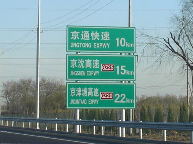 Chinese expressway distance sign. DF08 2004 image.